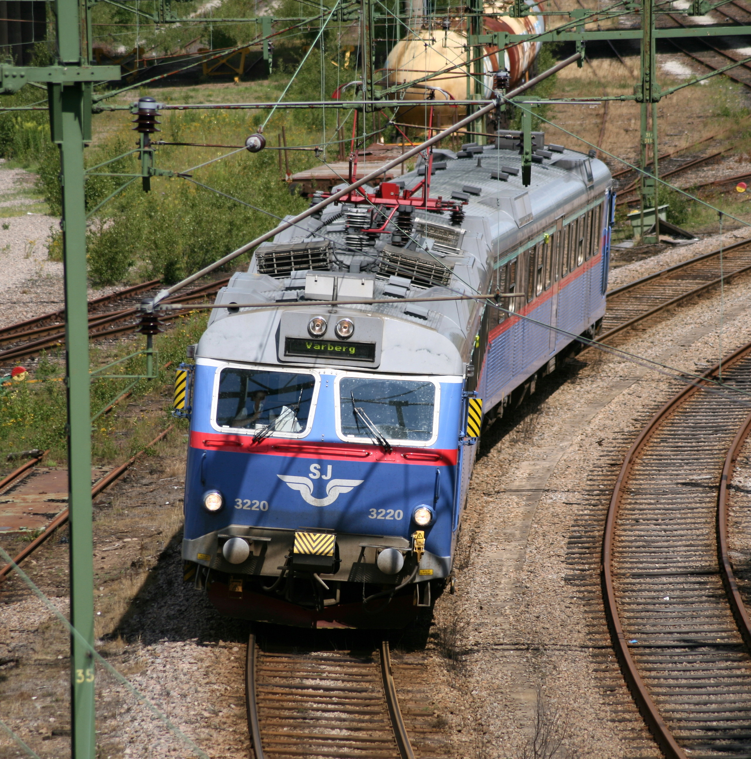 A X12 train on Viskadalsbanan just outside Borås.